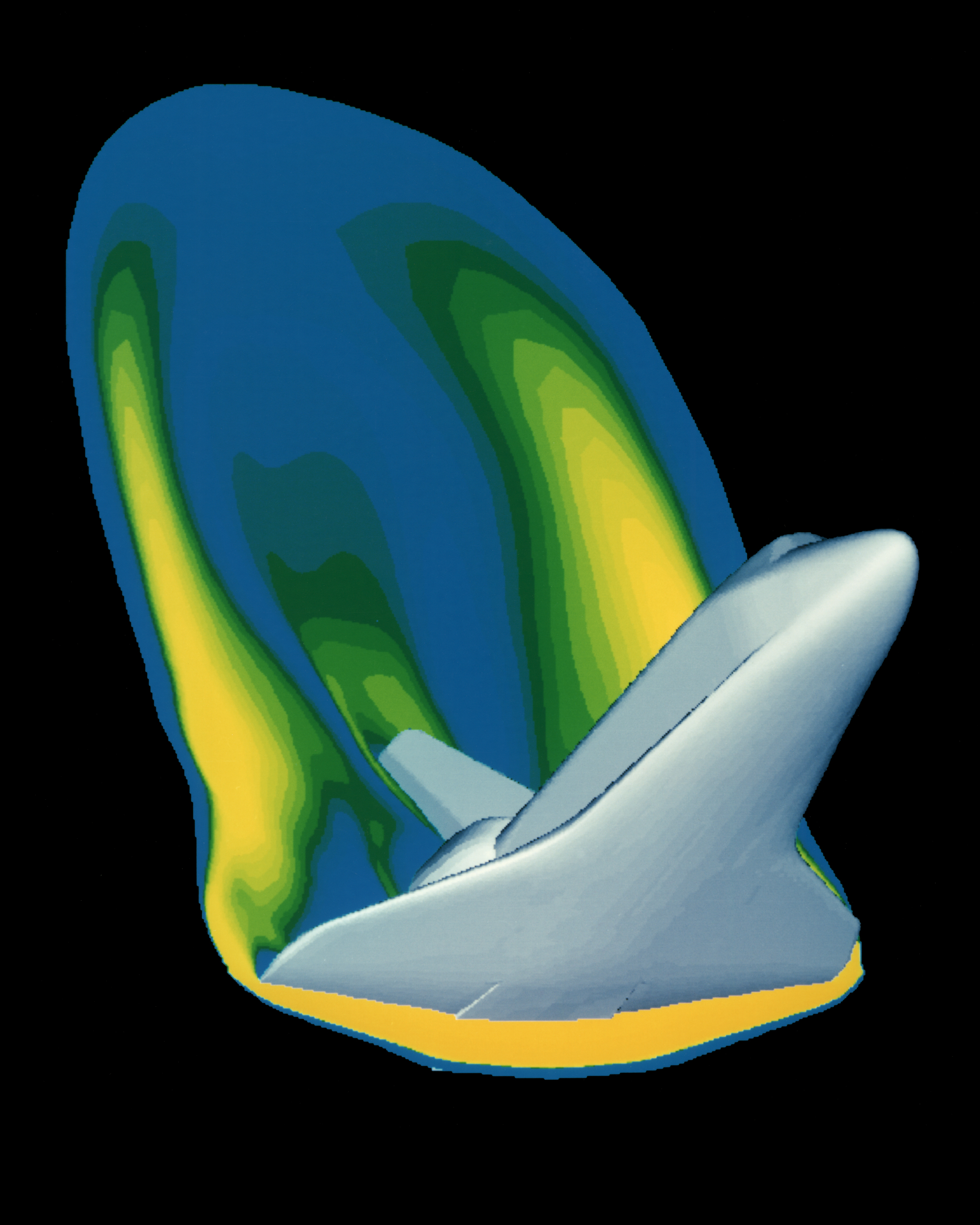 This is a Computational Fluid Dynamics (CFD) computer generated Space Shuttle model. CFD has supplanted wind tunnels for many evaluations of aircraft. As computing power increases and computer models become more sophisticated, CFD will largely replace wind tunnels.